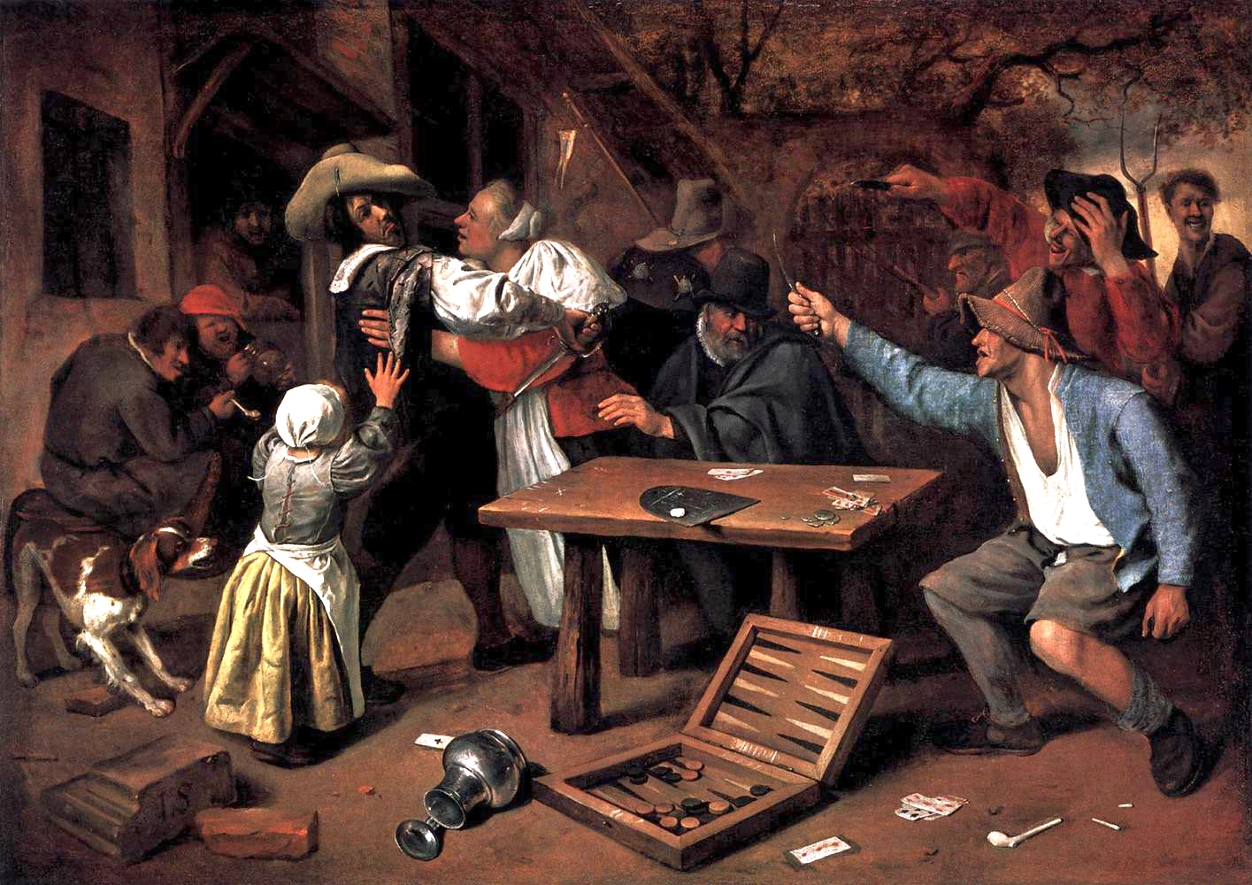 Argument over a Card Game